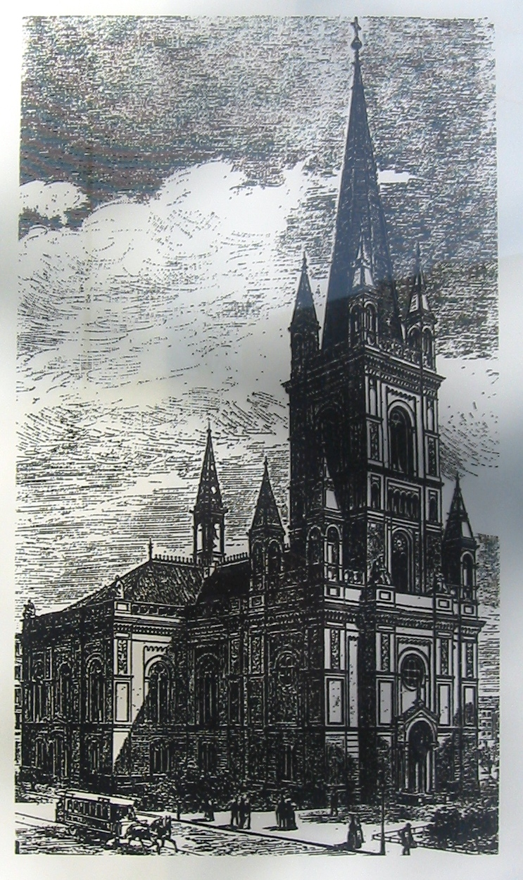 Mapping of the Jerusalem church (around 1870)